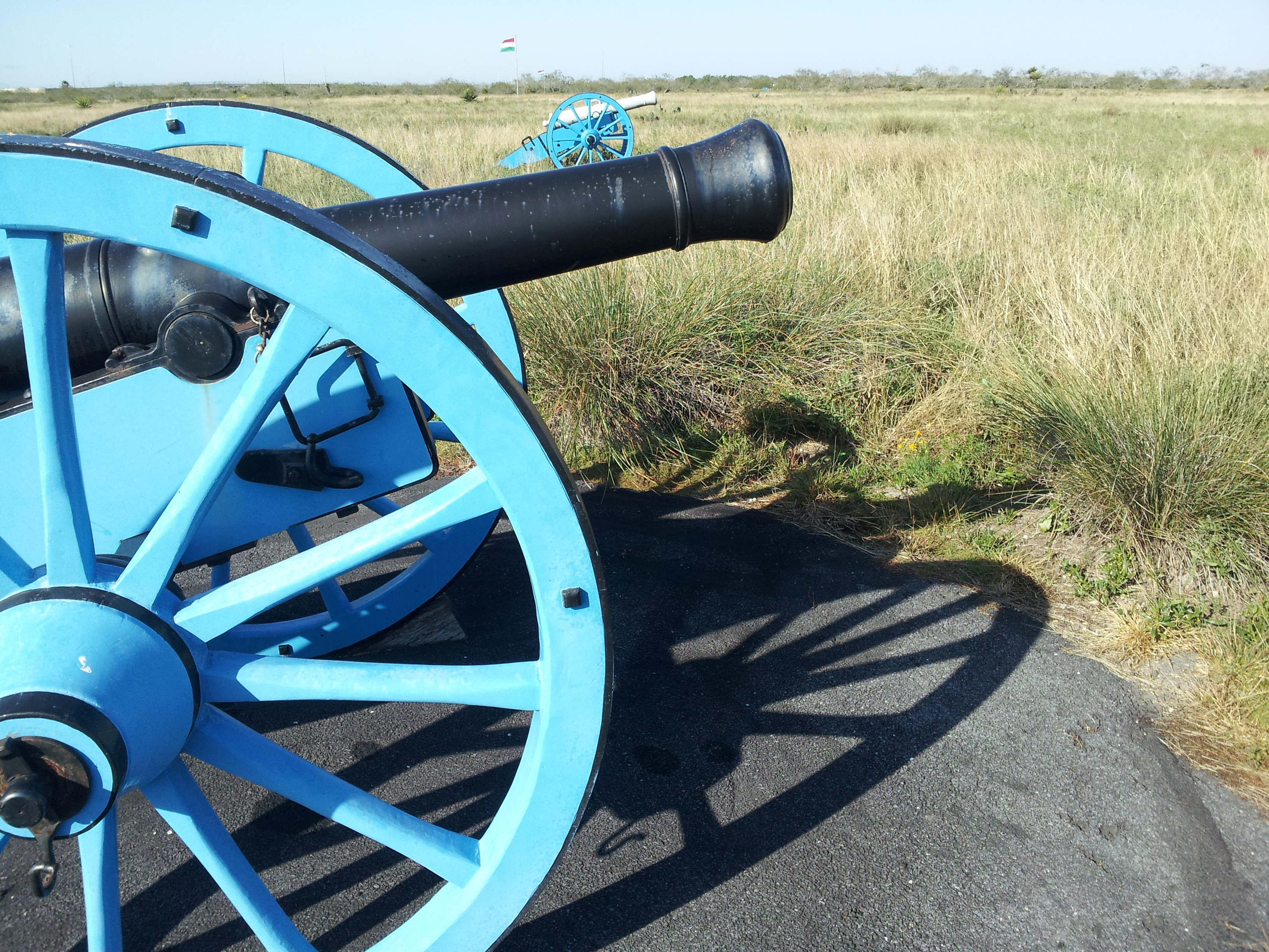 Mexican line